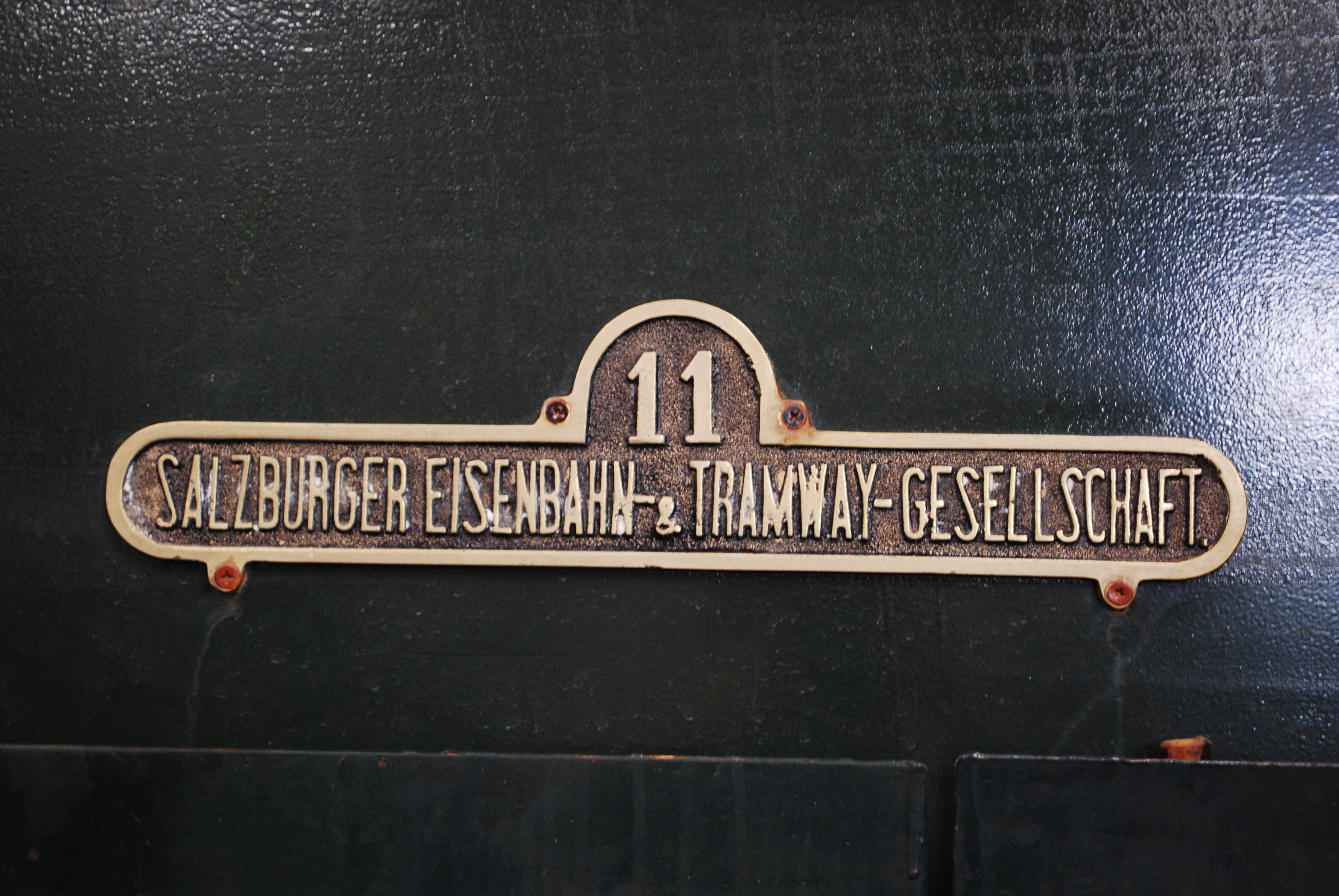 Number plate of Salzburg Tramway 0-4-0T No.11 at the Meiningen Steam Festival, 09/12.